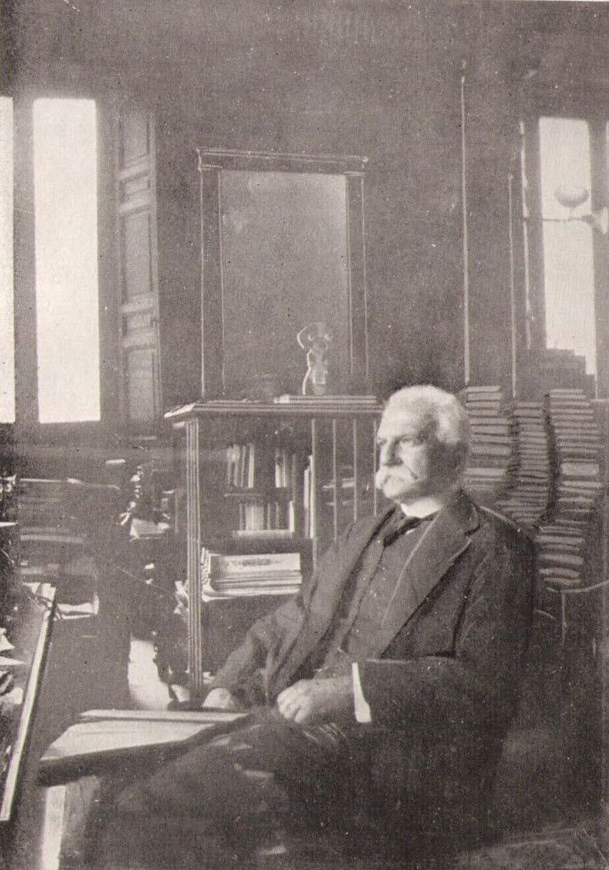 Sidney Sonnino (11 March 1847 – 24 November 1922). Italian politician.